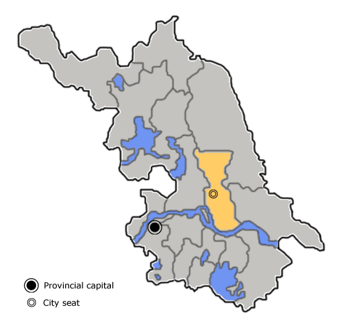 The prefecture-level city of Taizhou is highlighted on this map of Jiangsu province, People's Republic of China.